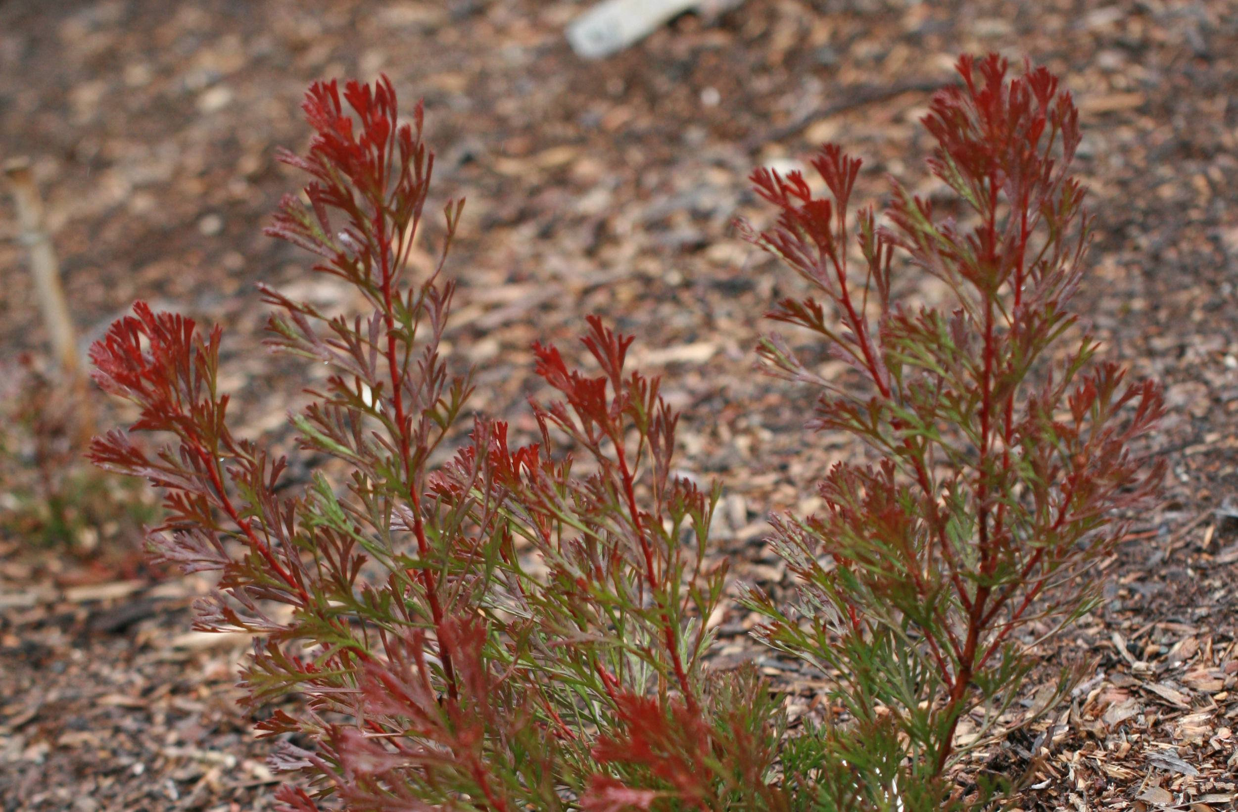 Isopogon anemonifolius with its winter colours at the Mount Tomah botanic gardens.